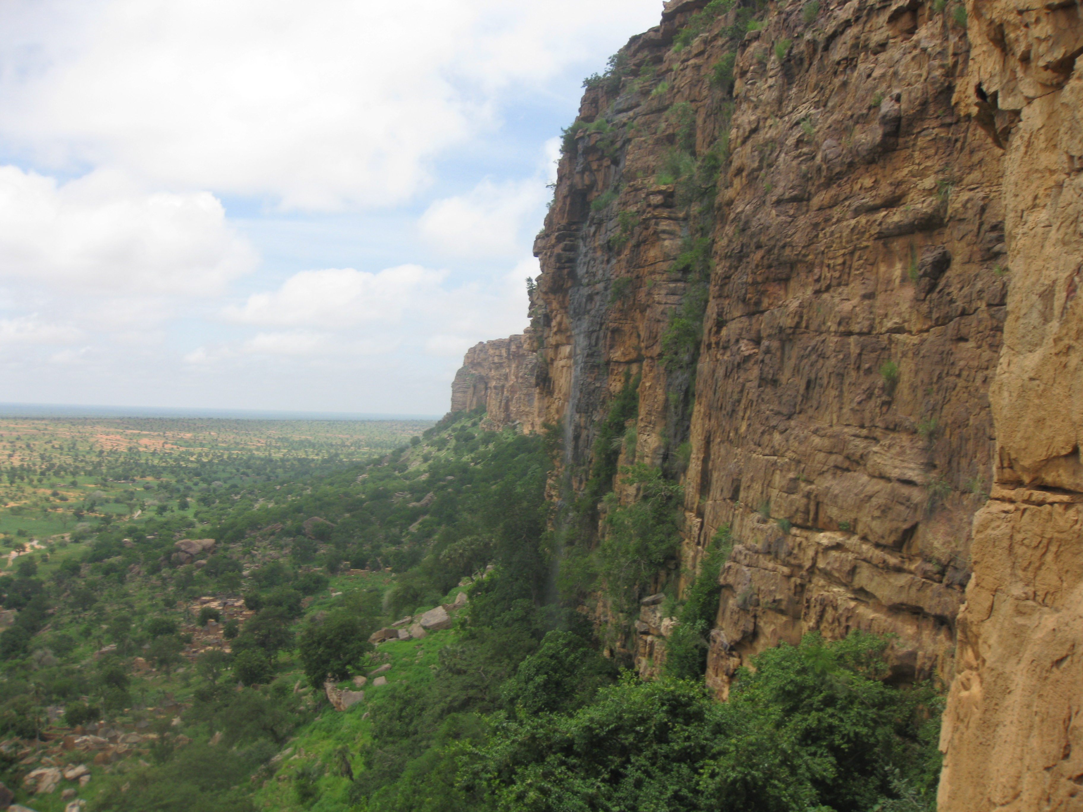 Dogon country, Mali. Bandiagara